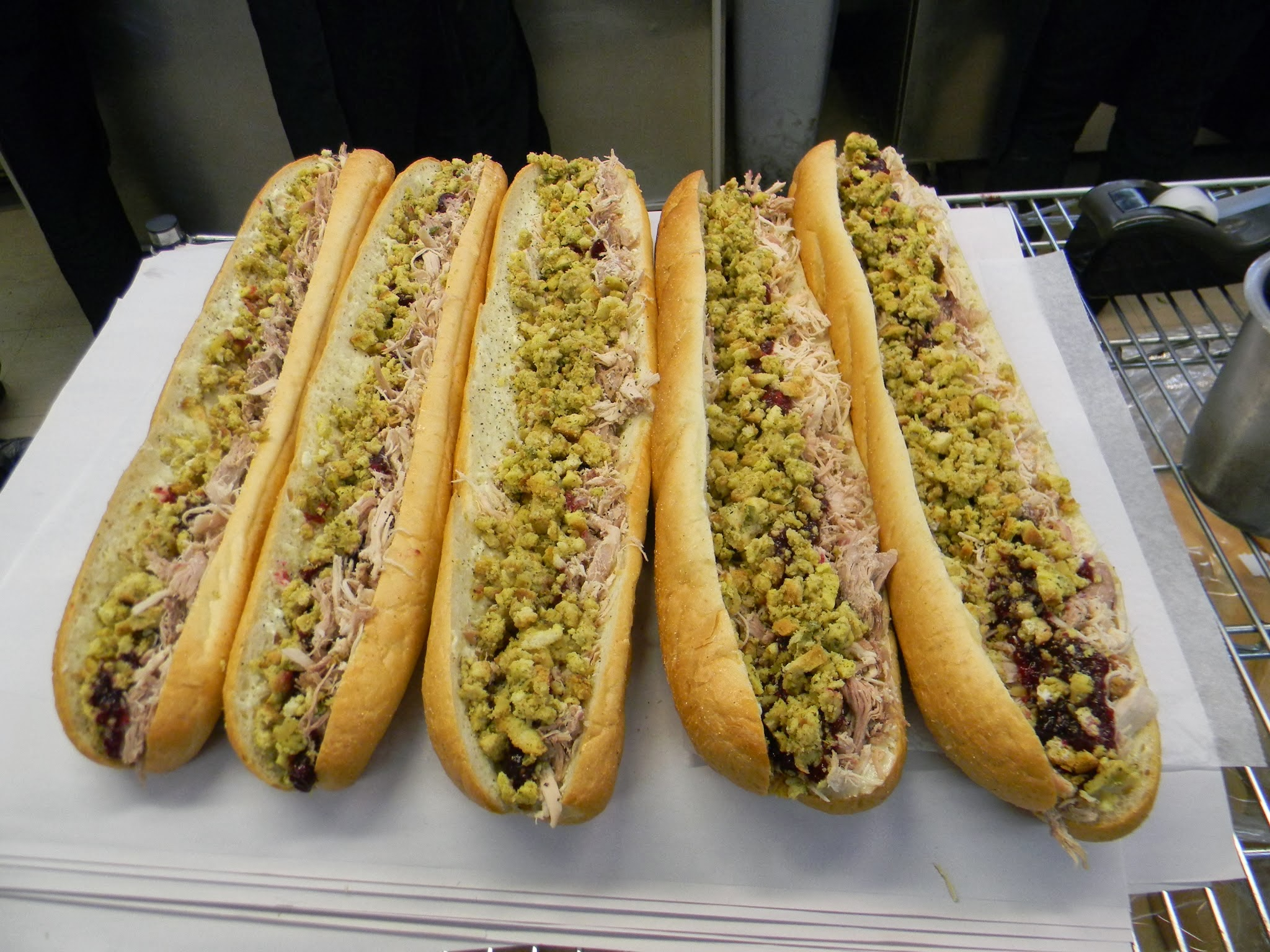 Capriotti's Sandwich Shop